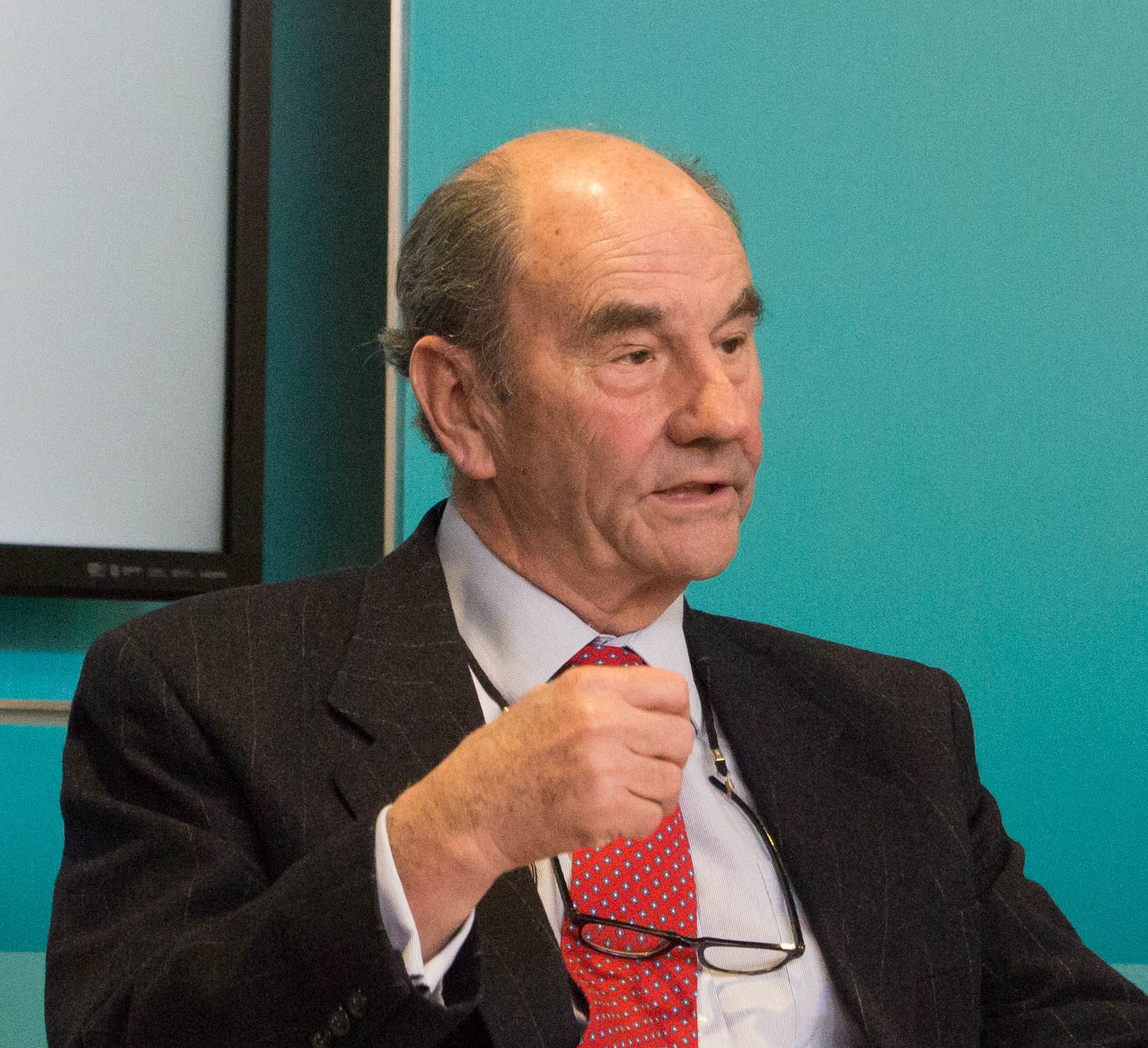 Rosa Brooks, Senior ASU Future of War Fellow, New America; Thomas B. Wilner, Co-Founder, Close Guantanamo Of Counsel, Shearman & Sterling, LLP; Andy Worthington, Co-Founder, Close Guantanamo, Author, The Guantanamo Files: The Stories of the 774 Detainees in America's Illegal Prison